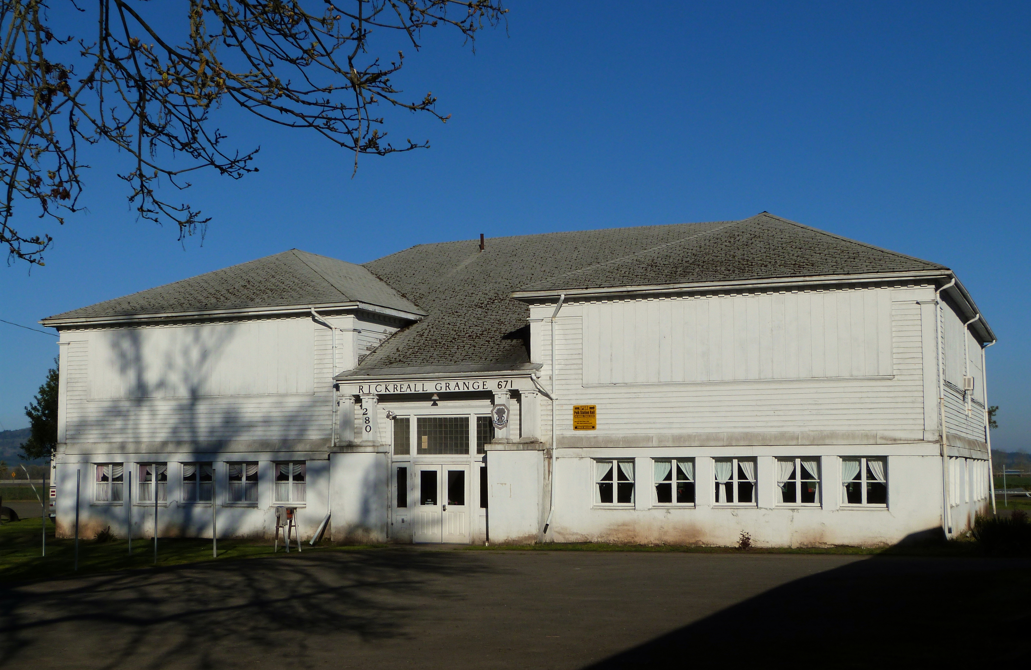 The Rickreall Grange hall in Rickreall, Oregon, United States.